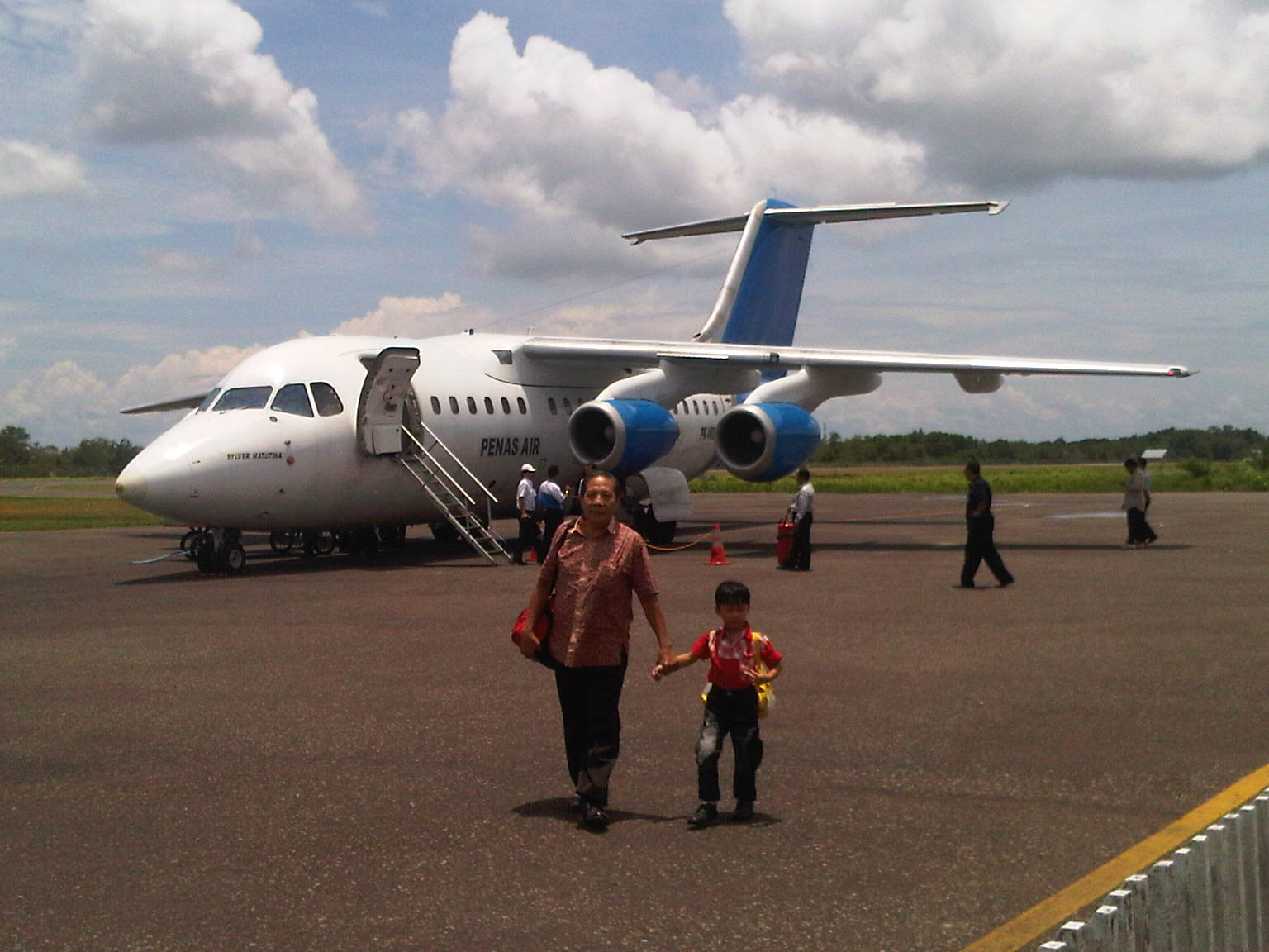 Penas Air, serves direct flight from Jakarta to Ketapang picking up my old dad. Penas Air just landed in Rahadi Osman Airport.